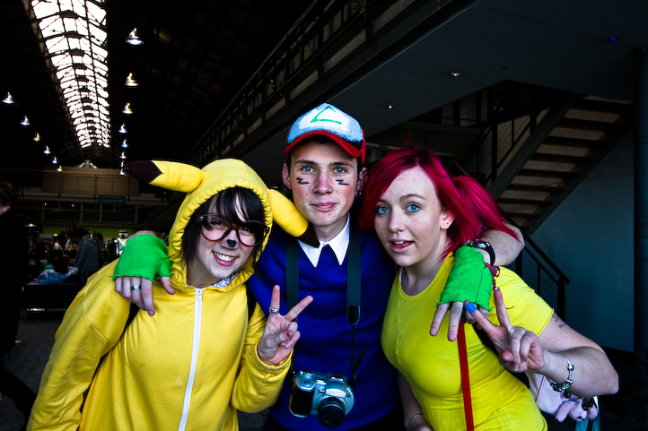 Pokémon Cosplay